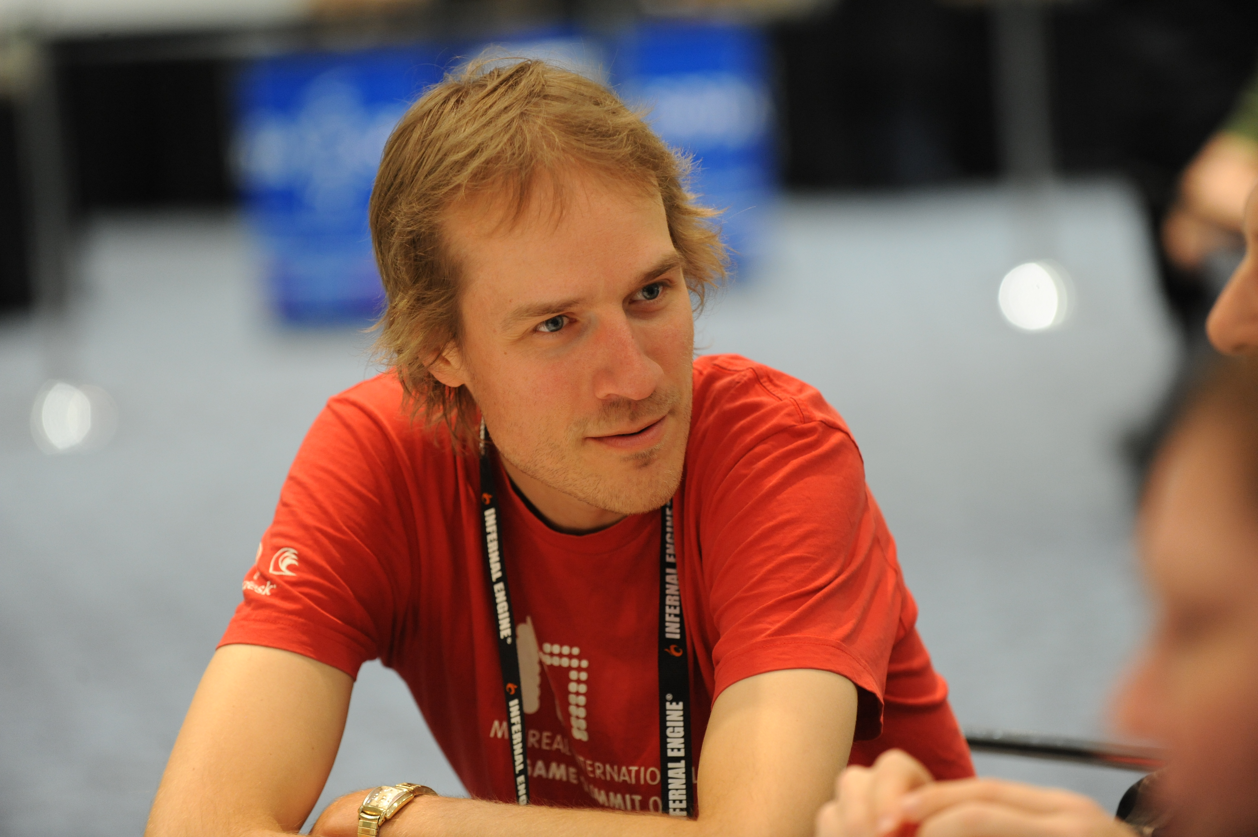 Jason Rohrer at the Game Developers Conference in 2011 (second day), North Hall.